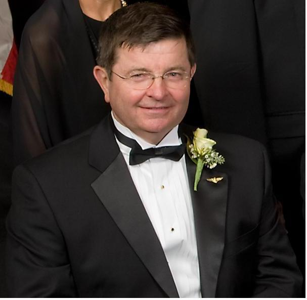 Astronaut Kenneth Cameron in Cleveland August 29, 2008 to celebrate NASA's 50th anniversary.